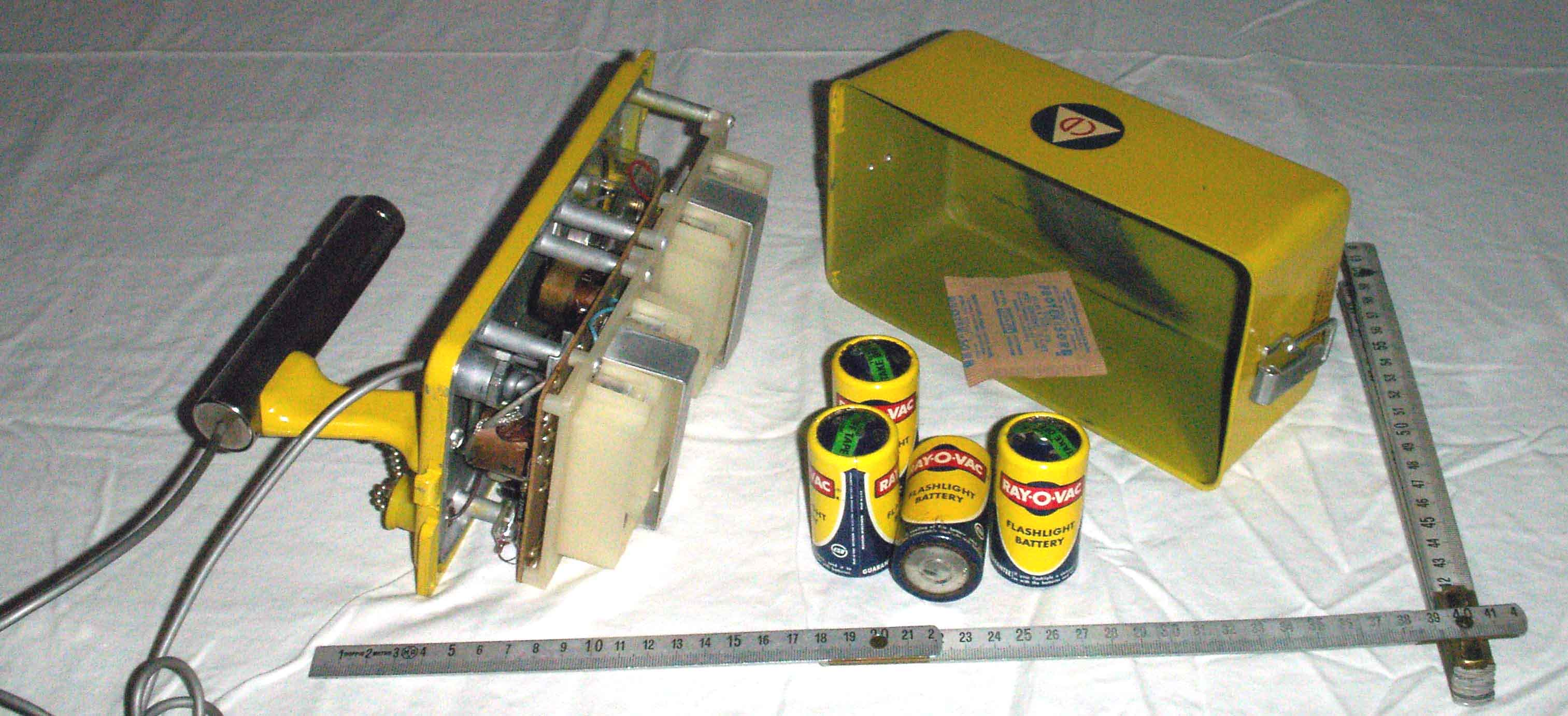 Victoreen Civil Defence V-700 geiger counter, inside overview